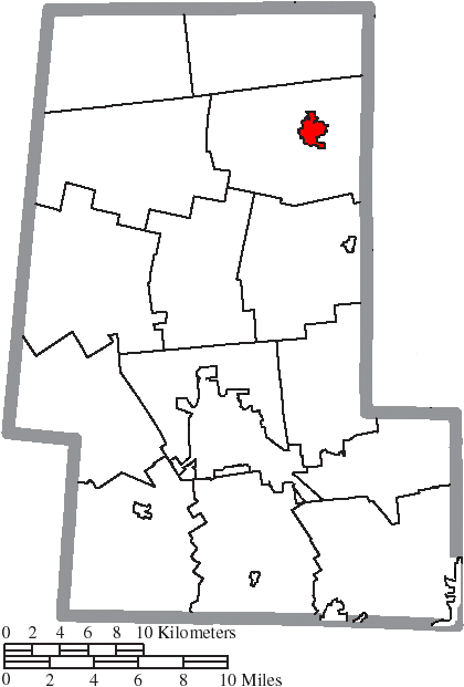 Map of the municipal and township boundaries of Union County, Ohio, United States, as of the 2000 census, with the location of the village of Richwood highlighted. Township borders are shown only in unincorporated areas in order to differentiate incorporated and unincorporated areas more clearly.